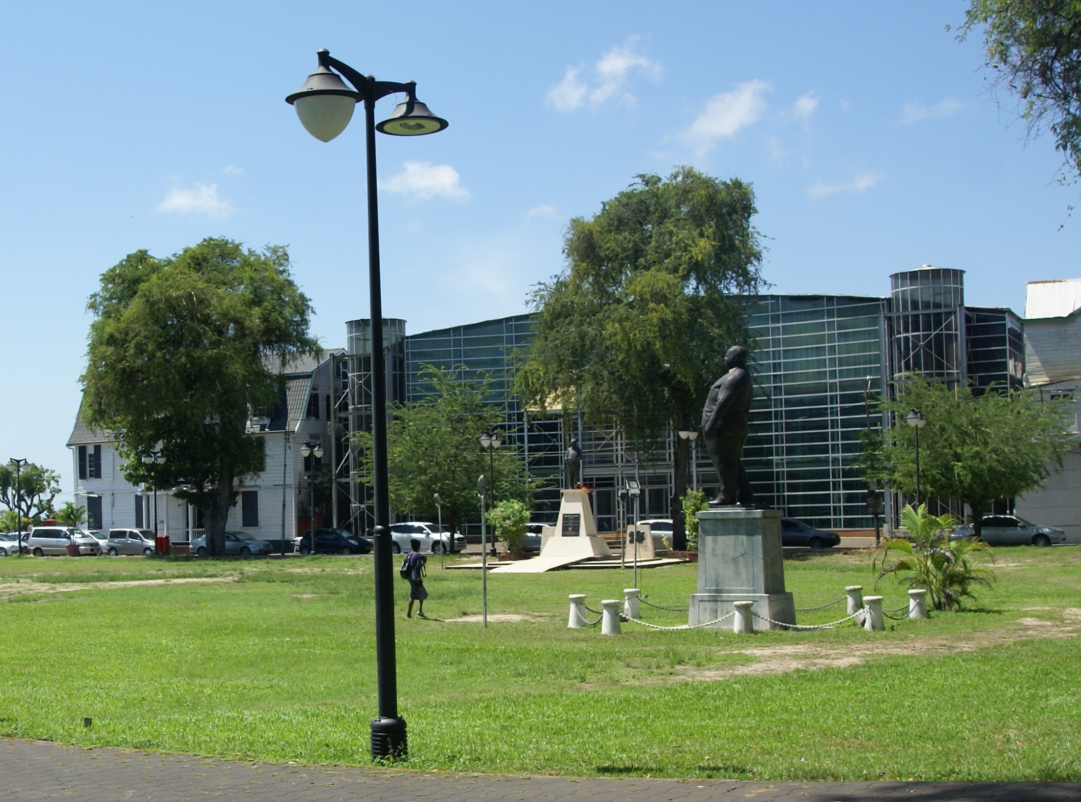 Congreshal, Onafhankelijkheidsplein, Paramaribo, Surinam.